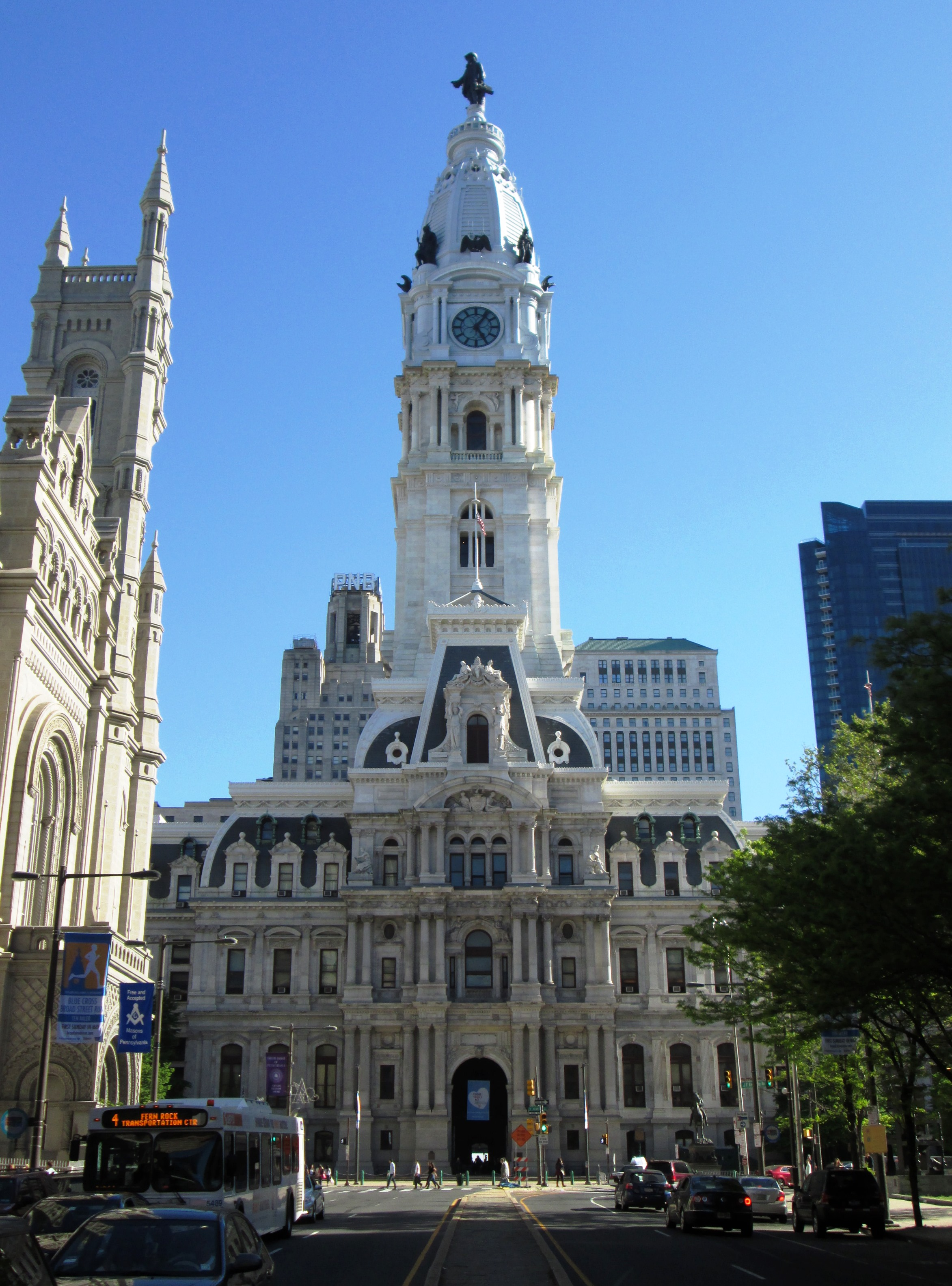 Philadelphia City Hall seen from the north at Arch Street. On the left is the Masonic Temple.